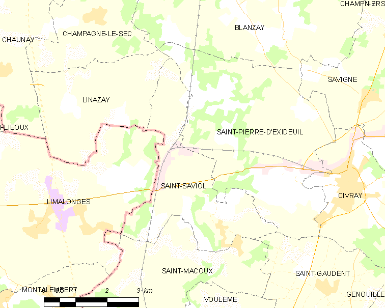 Map of French municipality Saint-Saviol